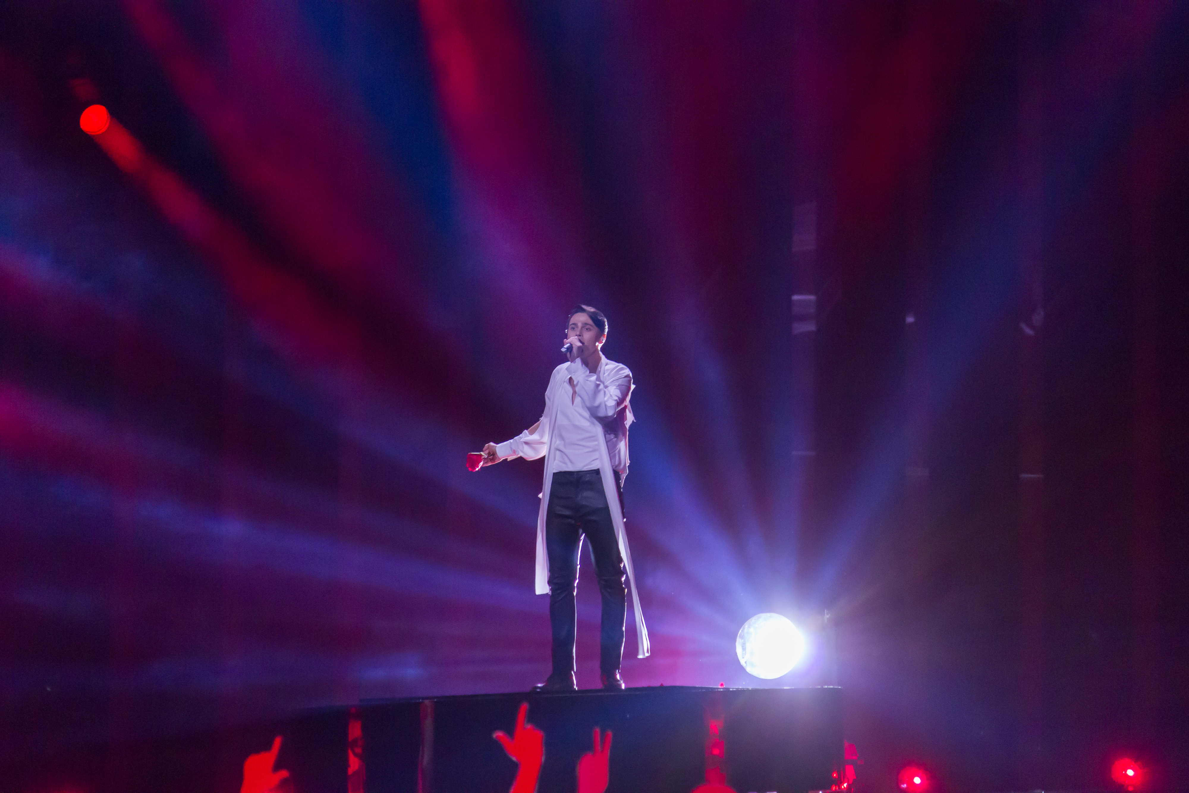 ALEKSEEV representing Belarus with the song "Forever" during a rehearsal before the first semi final of the Eurovision Song Contest 2018 in Lisbon.